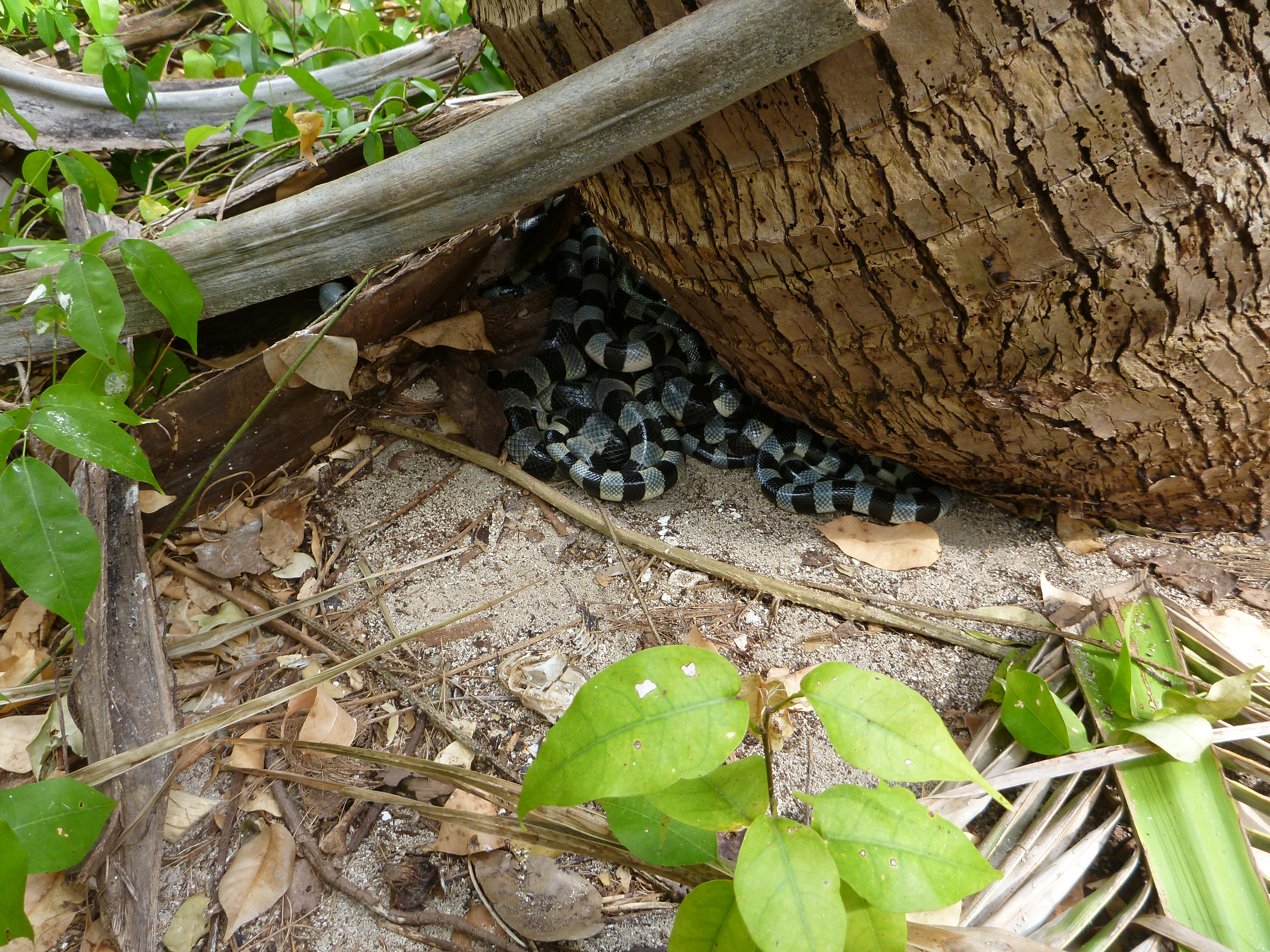 Banded sea kraits mating and hiding on a small island near Nukumbati Island